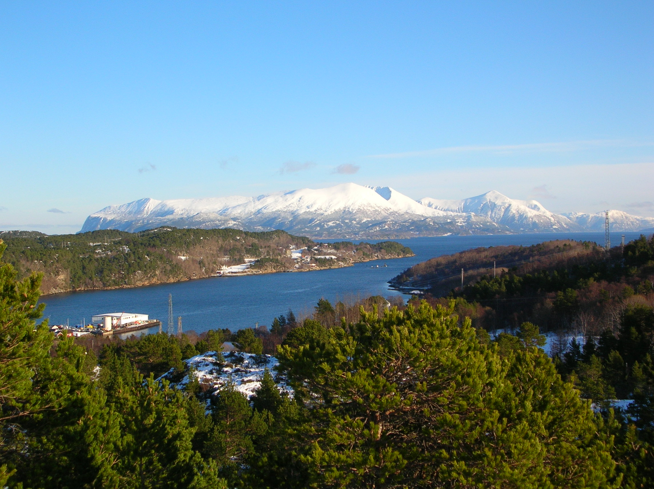 Mountains of Tustna seen from Frei, Kristiansund.